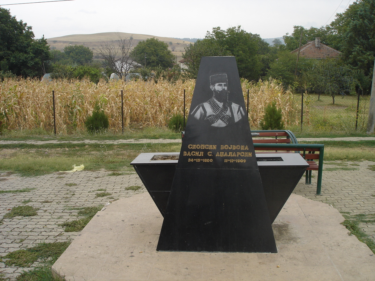 Monument of Vasil Adzilarski in Miladinovci, Macedonia